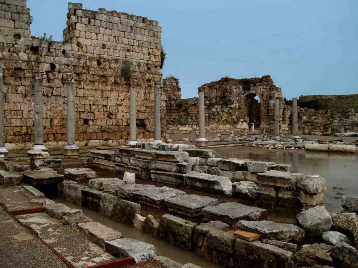 Perge ruins, pillars & pool